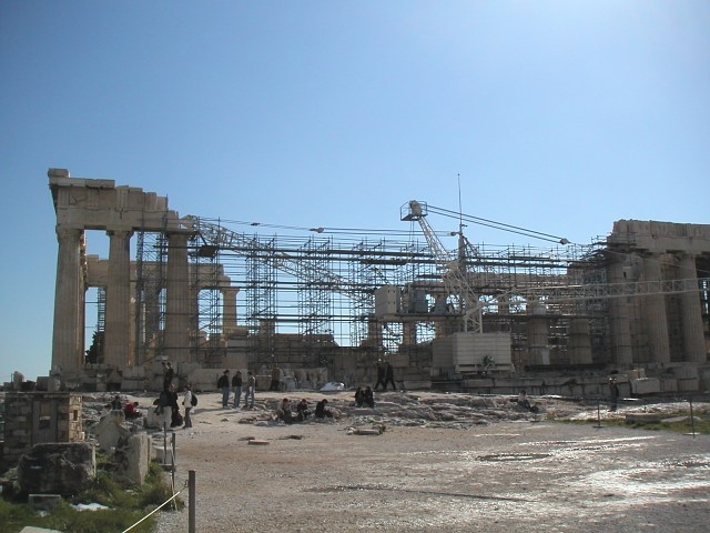 The Parthenon undergoing restoration before the 2004 Summer Olympic Games. Taken February 21, 2004 by Michael Shields.